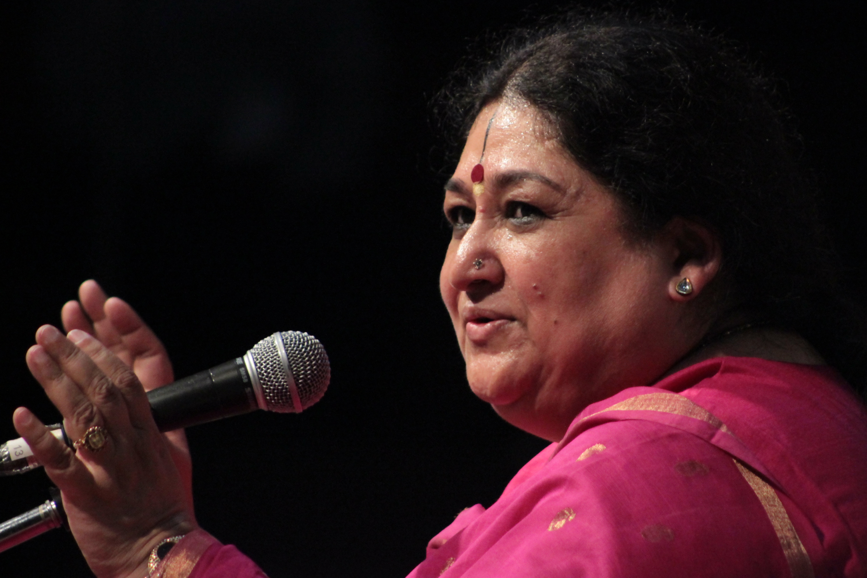 Shubha_Mudgal Reforming at Bharat_Bhavan Bhopal July 2015 in Uttar Pradesh Mahotsav